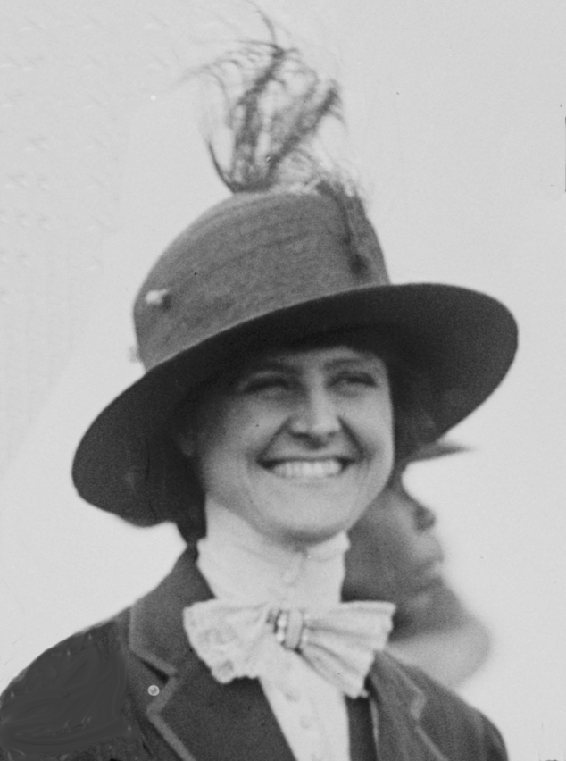 Mrs. Oren Root (nee Aida De Costa).